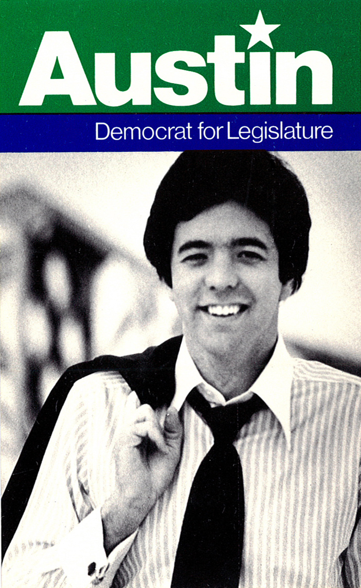 Robb Austin 1978 official campaign picture for Pennsylvania House of Representatives.